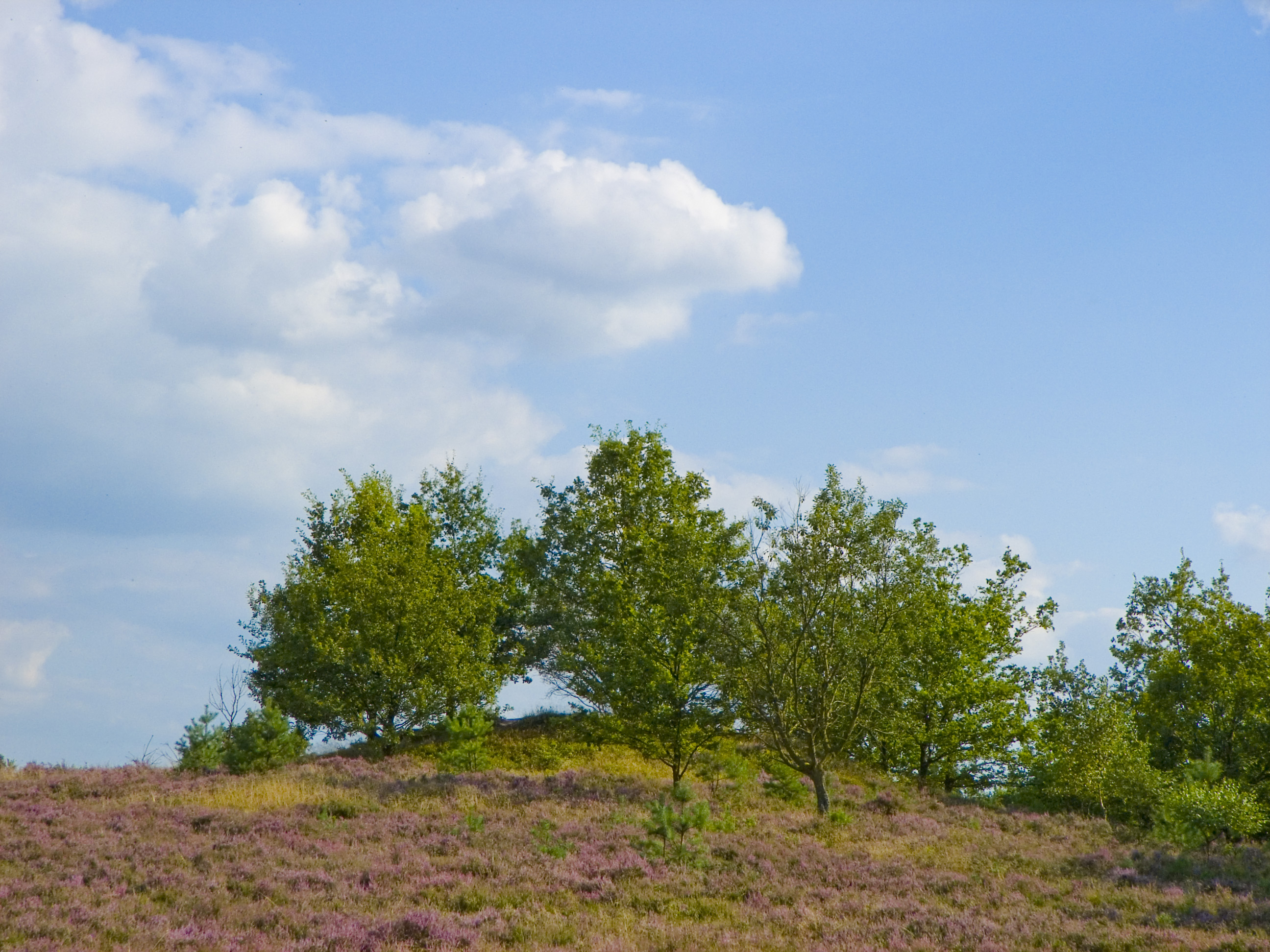 Tumulus in the Lüneburg Heath near Niederhaverbeck